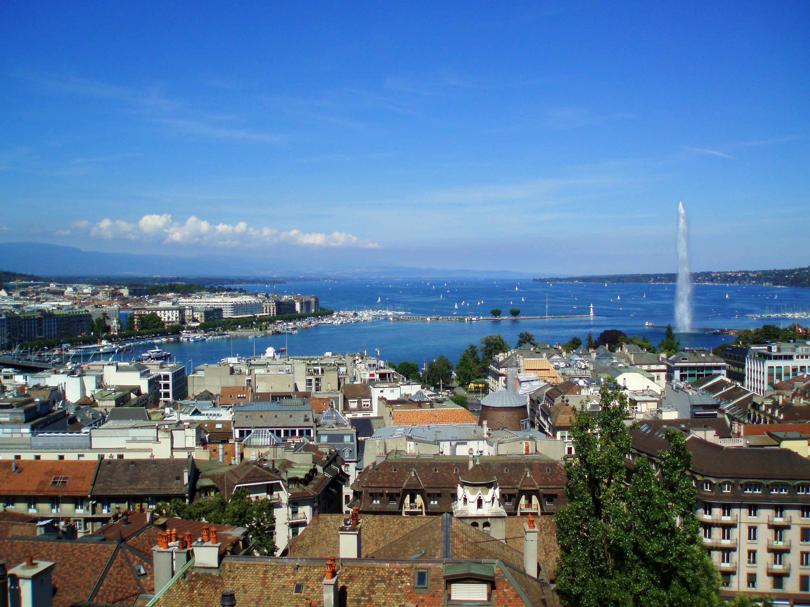 A photograph of Geneva's dock, including the famous Jet D'Eau, taken from the Cathedral of St. Pierre